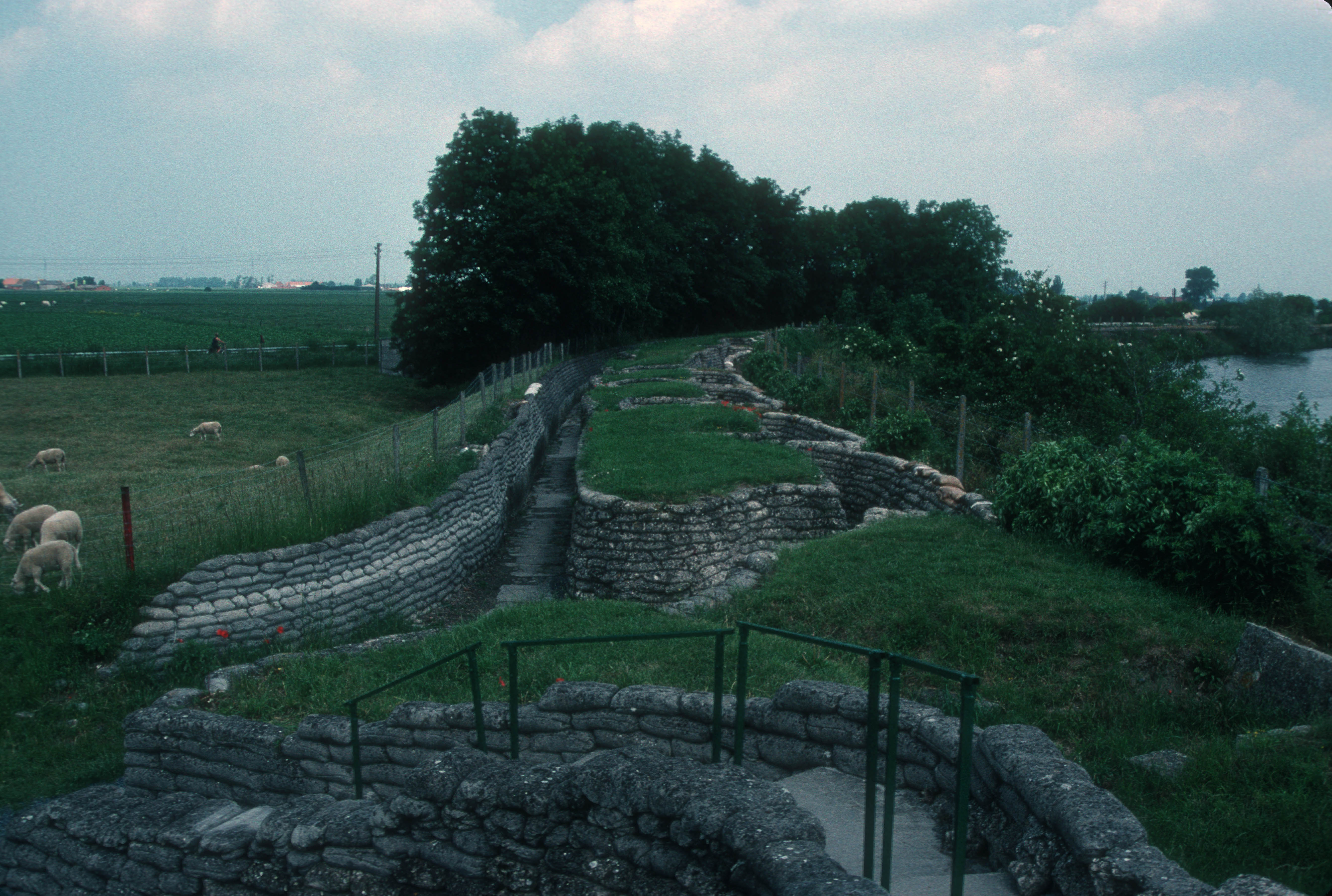 TOWN THAT WAS A STRATEGIC SITE IN THE BATTLE OF THE YSER RIVER IN OCTOBER 1914; THE TOWN WAS TOTALLY DESTROYED. THE "TRENCH OF DEATH" (DODENGANG) LIES ALONG THE RIVER JUST NORTHWEST OF THE TOWN. HERE BELGIAN AND GERMAN CONFRONTED EACH OTHER FOR 4 YEARS. TRENCHES ARE ORIGINAL BUT THE SAND BAGS HAVE BEEN REPLACED WITH CEMENT MADE TO LOOK LIKE SAND BAGS